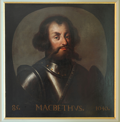 Macbeth, King of Scotland (1043-1060)